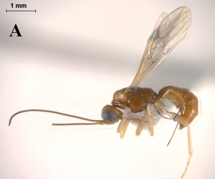 Braconid wasp Heerz macrophthalma